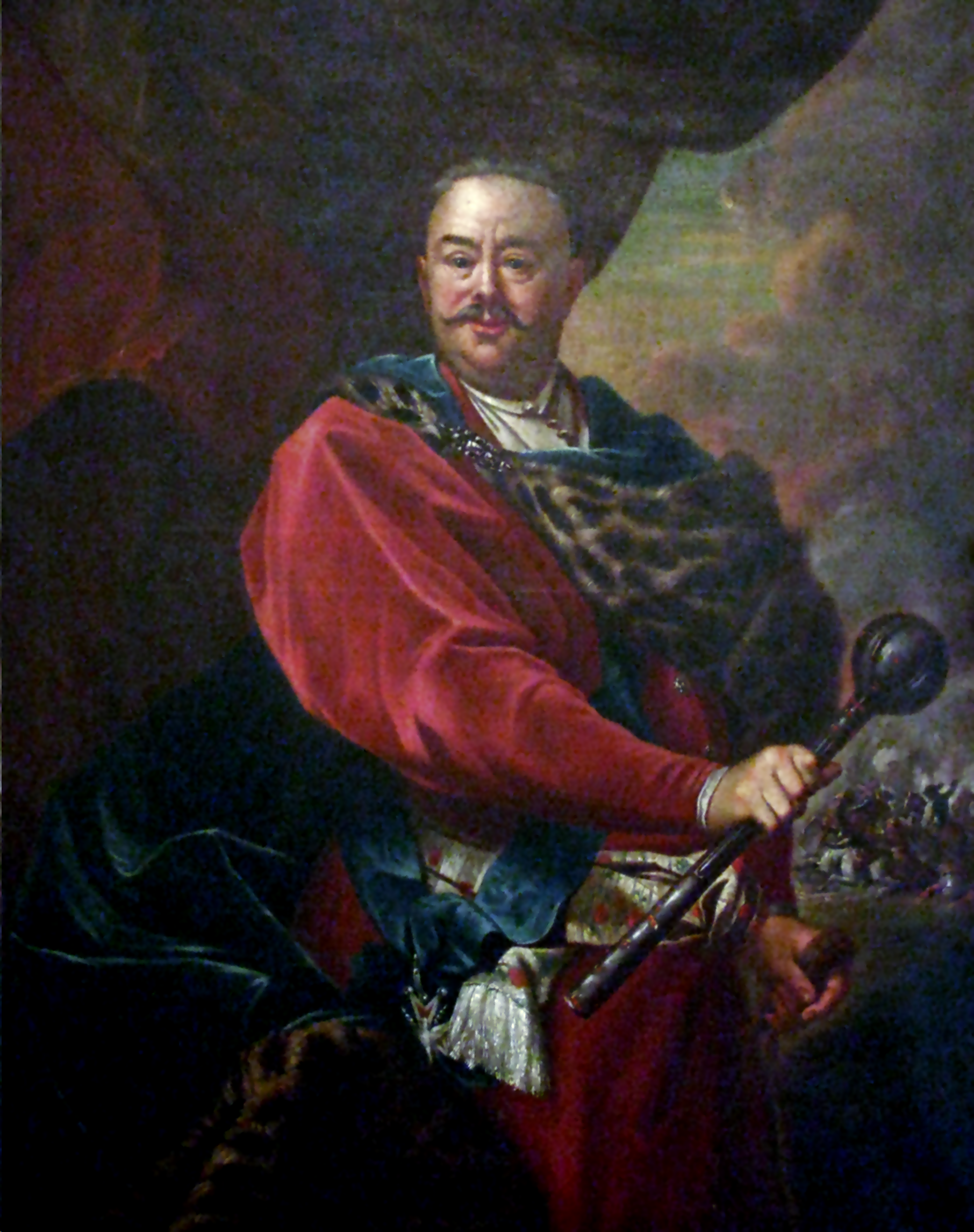 Jan Klemens Branicki